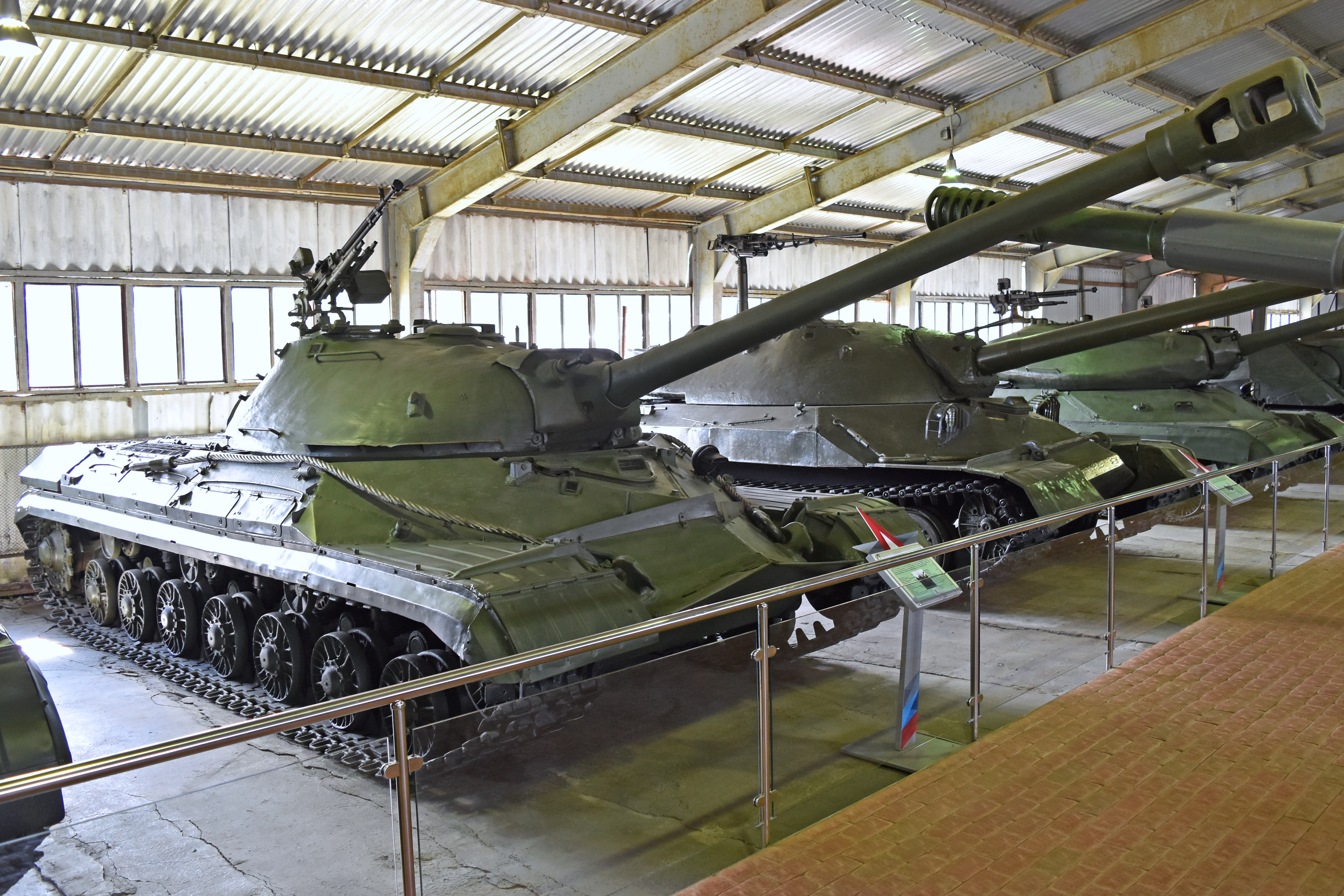 Designer:- Zhozef Kotin. Design No:- Object 730 Manufacturer:- Chelyabisnk Kirov Plant (ChKZ) Built:- 1953-1956 In service:- 1953-1996. Total production:- 200. Main armament:- 122mm rifled gun (model D-25TA) Originally designated the IS-8, but became the T-10 after the death of Stalin in 1953. The T-10 was the last of the classic Soviet heavy tanks and only served with the Soviet Union, not being exported to either Warsaw Pact countries or the Middle East. Removed from front-line service in 1966, the type was finally withdrawn from reserve use in 1996. On display in what is best known as Hall1 of the Kubinka Tank Museum, although its official title is now Pavilion 1 in Area 2 of the Park Patriot museum. Kubinka, Moscow Oblast, Russia. 24th August 2017.